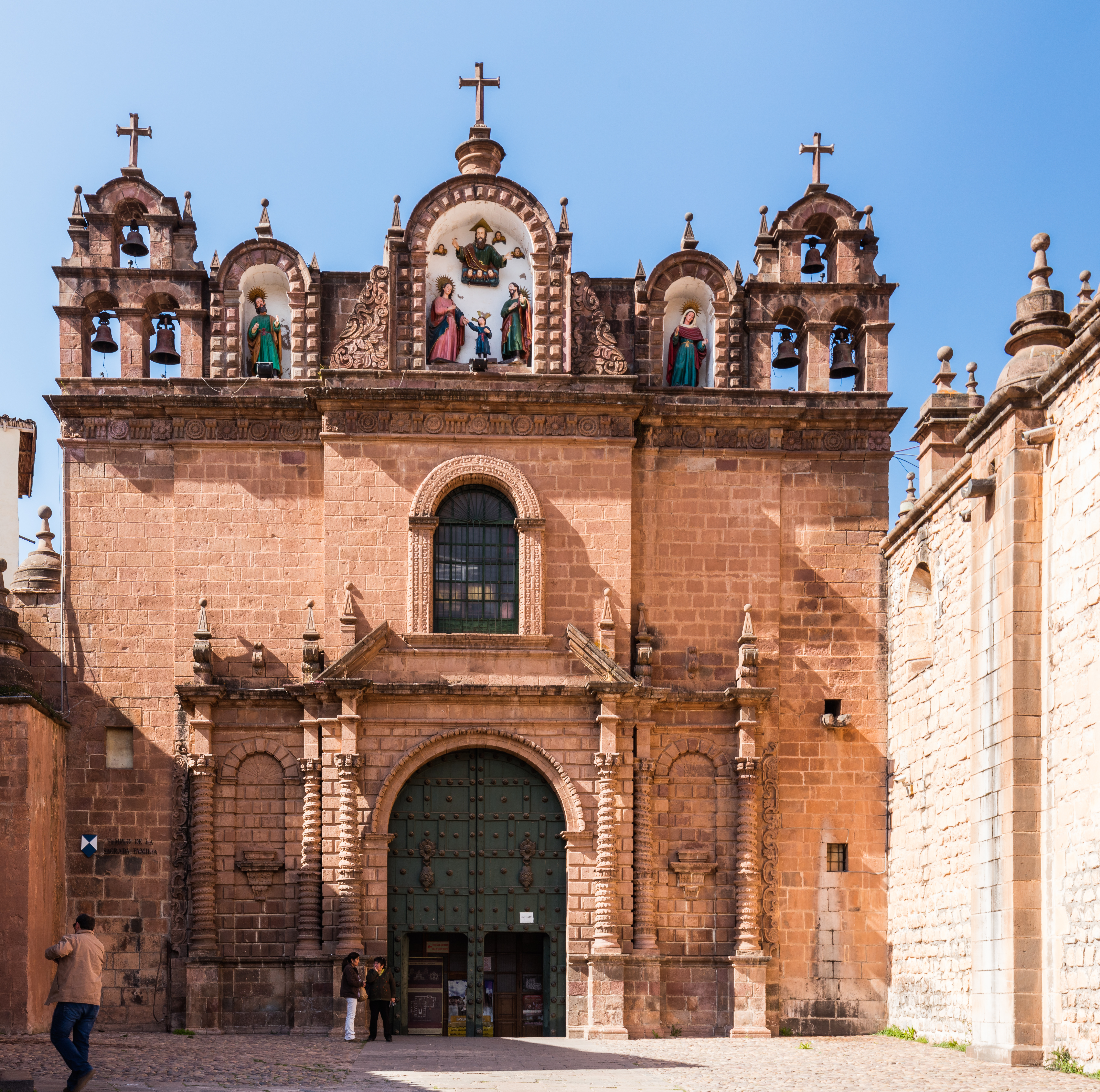 Cathedral, Plaza de Armas, Cusco, Peru